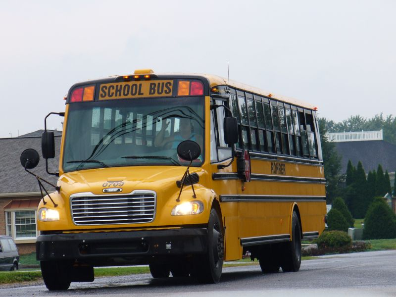 Photograph of a school bus in Carlisle, Pennsylvania. The bus is a 2007 Thomas Built Buses Saf-T-Liner C2 on a Freightliner C2 chassis.